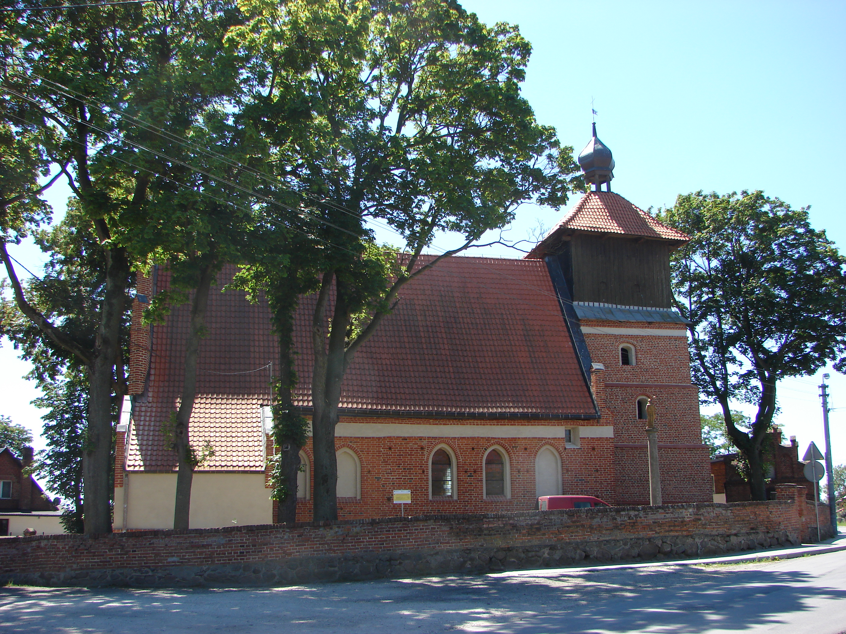 Wielkie Radowiska, Gmina Dębowa Łąka, Wąbrzeźno County, Poland. Church of Saint James, XIV century.